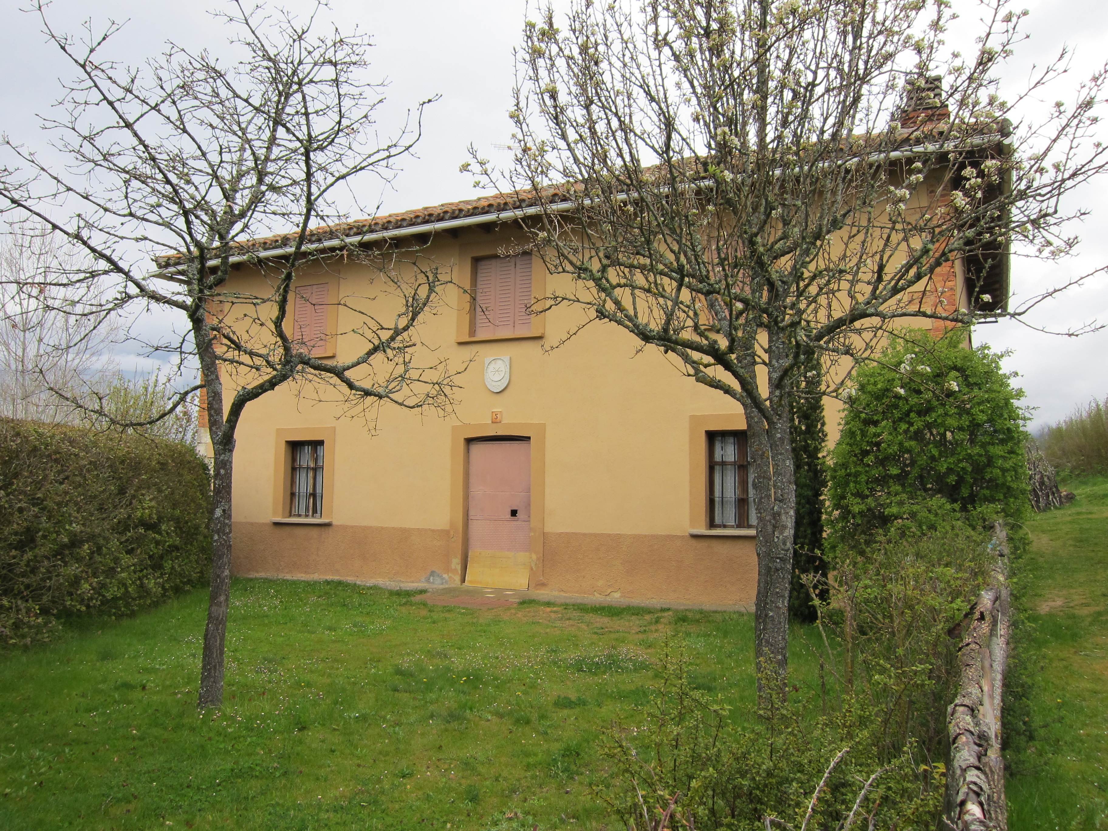 Boedo de Castrejón (Palencia, Castile and León).